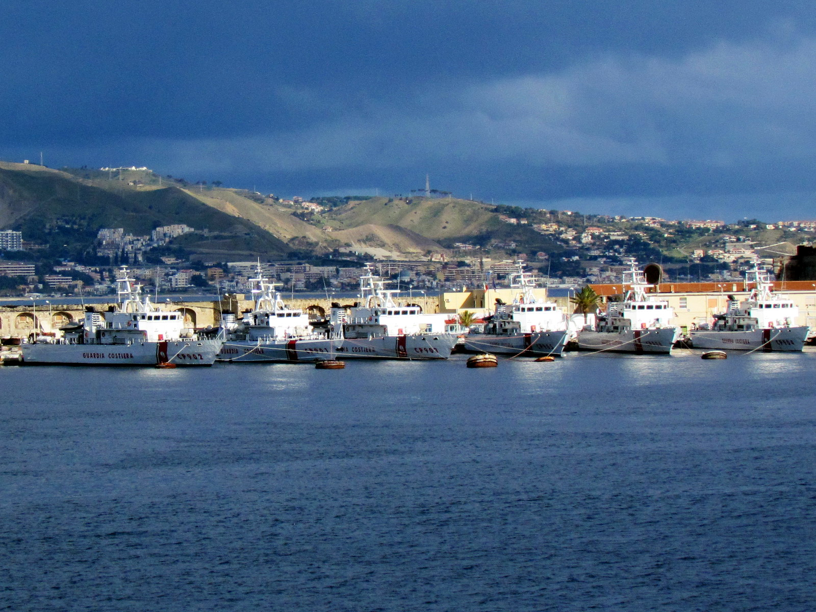 Pattugliatori Classe Diciotti ormeggiati a Messina